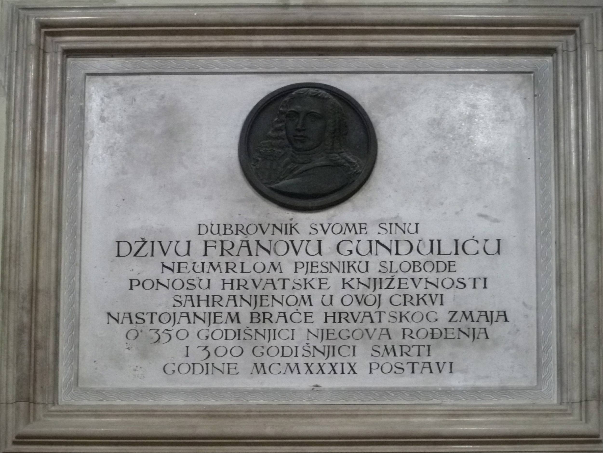 Tomb of the poet Ivan Gundulić in the franciscan church of Dubrovnik, Croatia